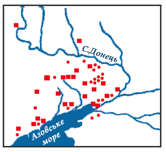 Map of Kipchak stone statues(Ukraine)